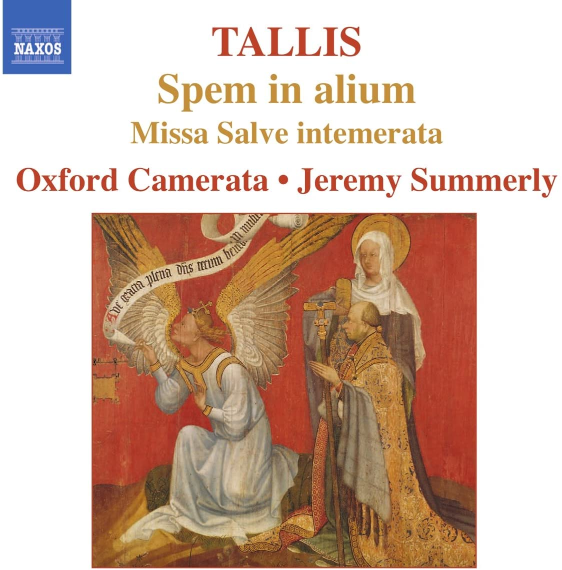 Spem in alium - Missa Salve intemerata Oxford Camerata, Jeremy Summerly